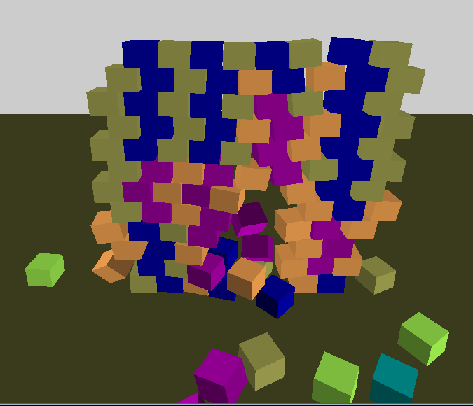 A destruction of wall, simulated by the physics engine Bullet.